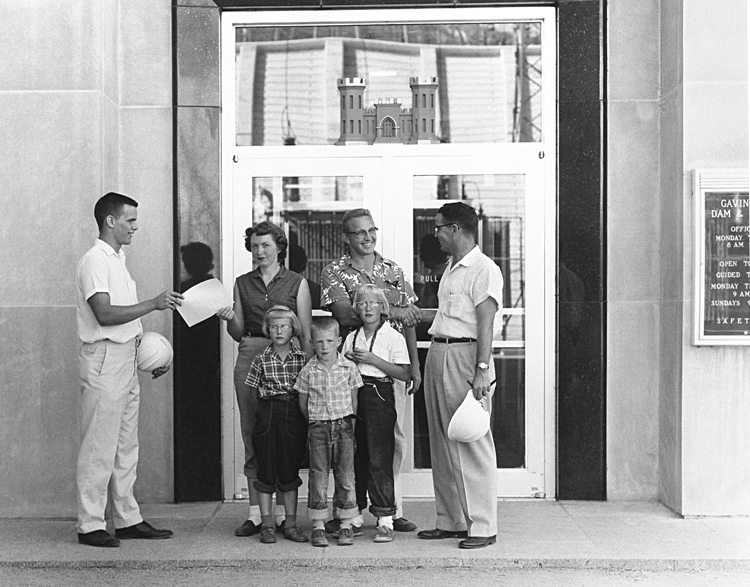 United States Army Corps of Engineers 1958 photo of Tom Brokaw (left) greeting the 20,000th visitor to the Gavins Point Dam Original caption: “Tom Brokaw (left) and Gavins Point Area Engineer Robert E. Roper (right) greet the 20,000th visitor to the Gavins Point powerhouse on August 27, 1958. Courtesy of USACE Omaha District.”